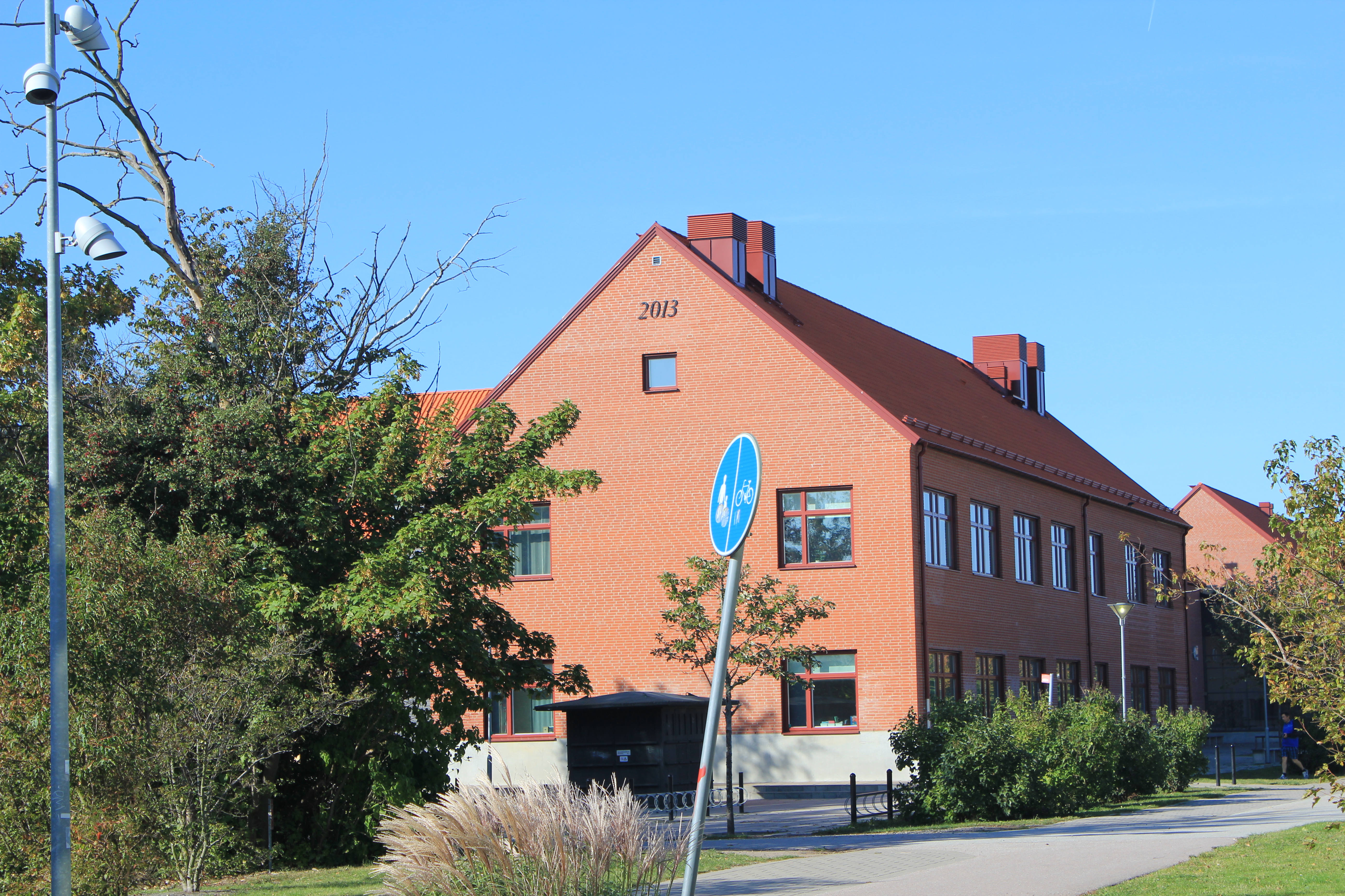 The local school, Strandskolan, which about 500 students attend.